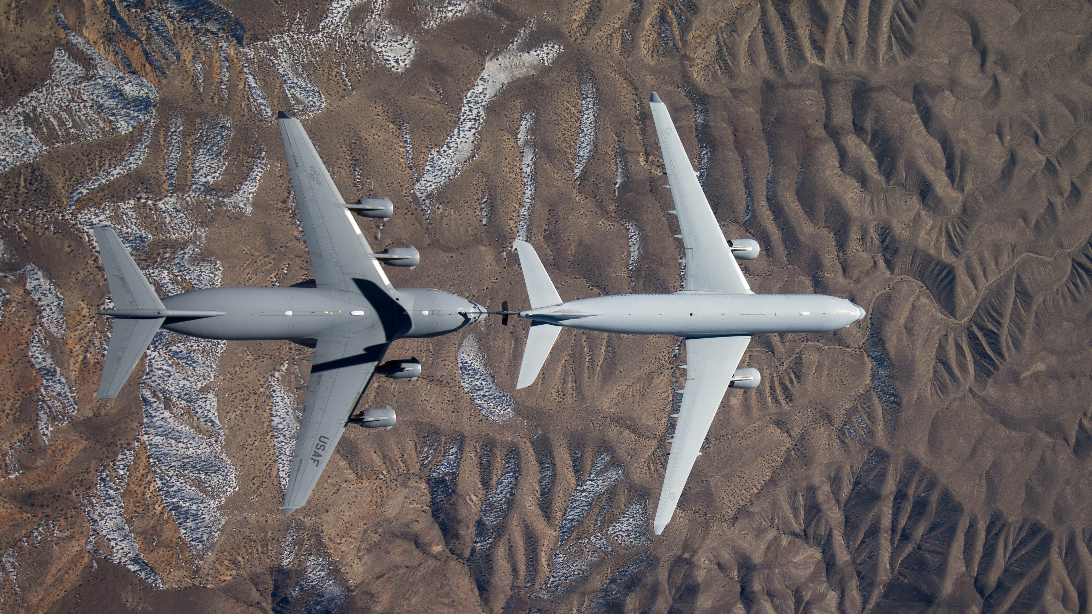 Overhead view of a Royal Australian Air Force KC-30A multirole tanker connecting with a U.S. Air Force C-17 Globemaster III from the 418th Flight Test Squadron at Edwards Air Force Base, Calif., Feb. 10, 2016. (U.S. Air Force photo/Christian Turner)